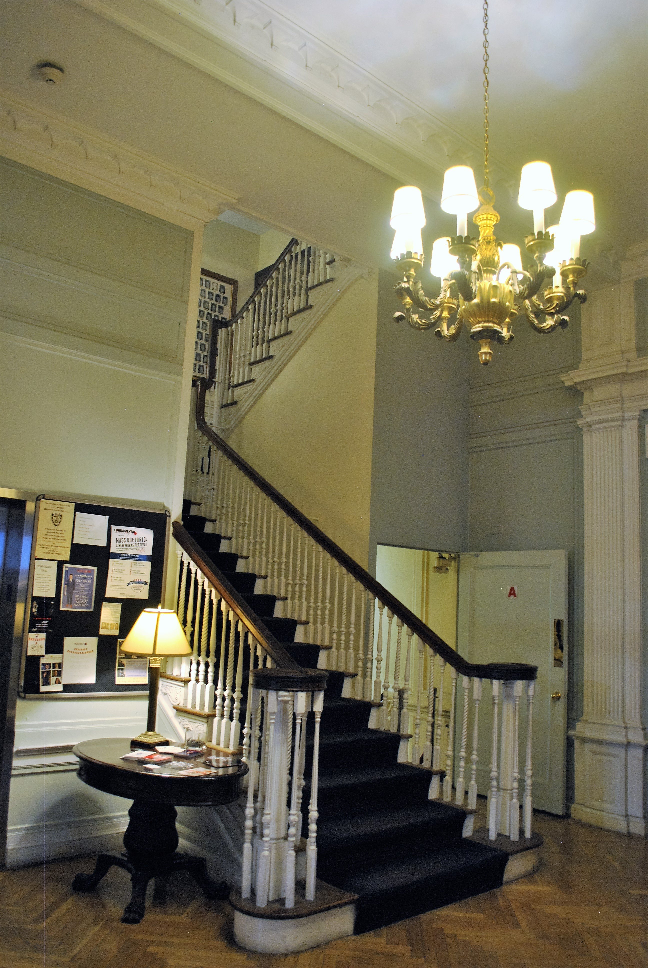 Image originally published in Queer Places: Retracing the Steps of LGBTQ people around the World Authored by Elisa Rolle